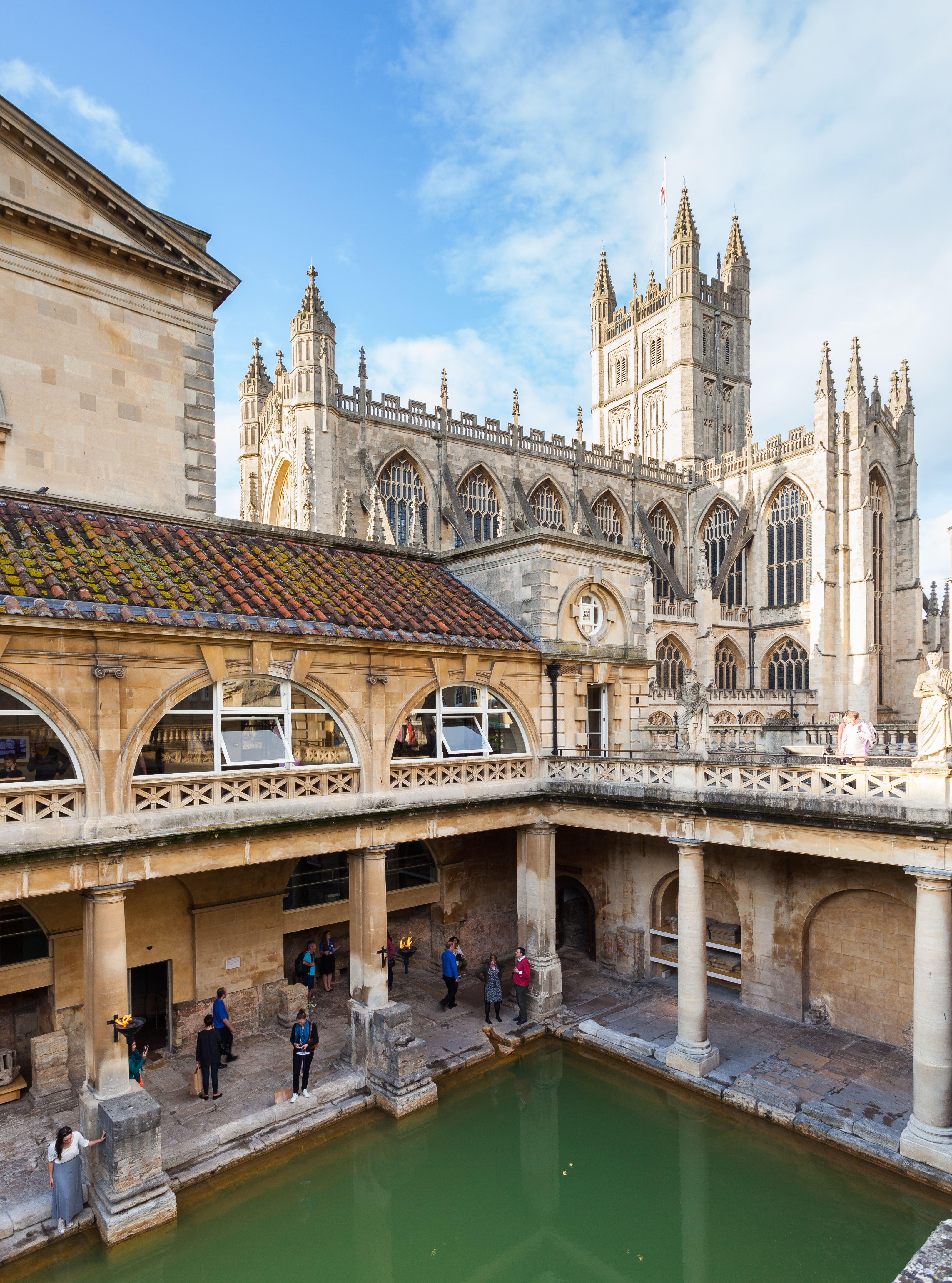 Roman Baths, Bath, England